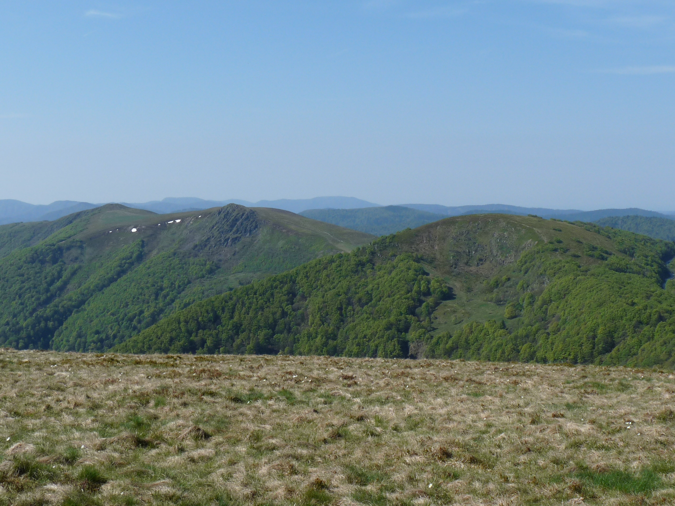 Rainkopf (closest summit on the right), Rothenbachkopf (middle) and Batteriekopf (on the left).